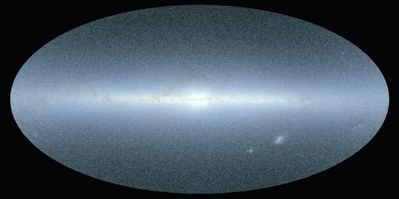 This is a panoramic view of the enire sky (rendered in an Aitoff projection). Not produced directly from the 2MASS sky images, this view has been compiled from star counts in the 2MASS point source database.